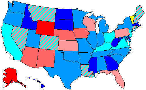 Summary of party control of U.S. house seats in the 102nd United States Congress following election. Stripes indicate a tie between two or more parties. Legend: 80.1-100% Democratic seat majority 60.1-80% Democratic seat majority 60% or less Democratic seat plurality 60% or less Republican seat plurality 60.1-80% Republican seat majority 80.1-100% Republican seat majority 80.1-100% Independent seat majority